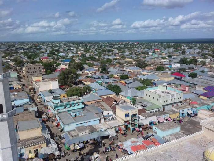 bay